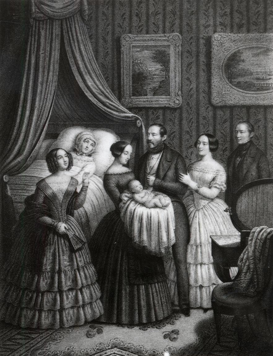 The birth of the son of the Michael of Braganza, King of Portugal in exhile.